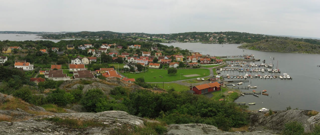 View from the summit on the island Asperö on the Swedish West coast.